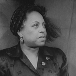 Edith S. Sampson, pioneering Black lawyer and judge